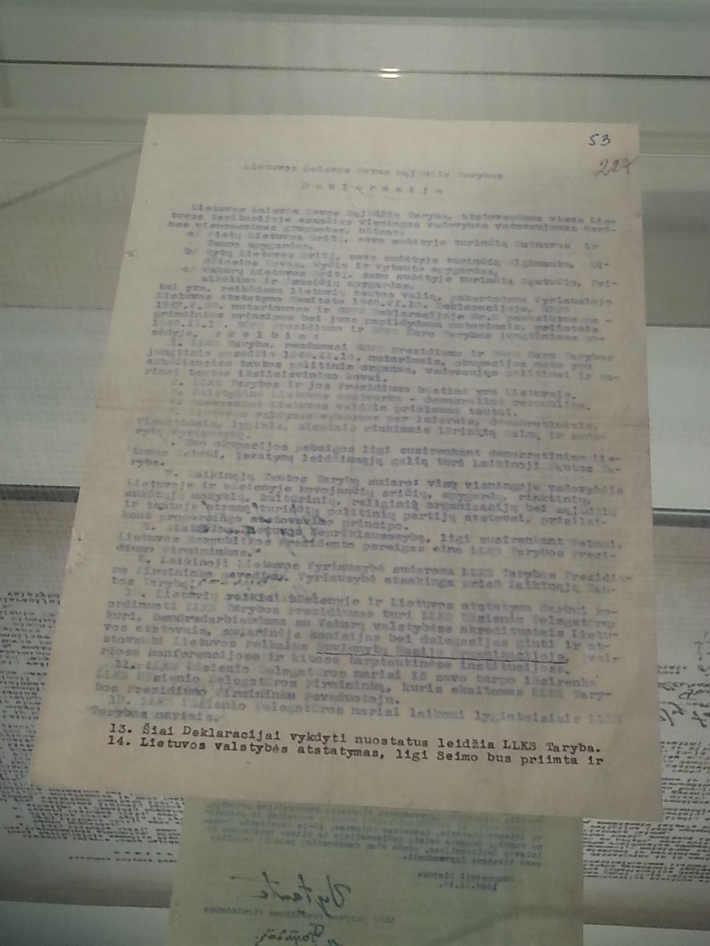 Original Lithuanian Partisans Declaration of February 16, 1949, exhibited in the National Museum of Lithuania.